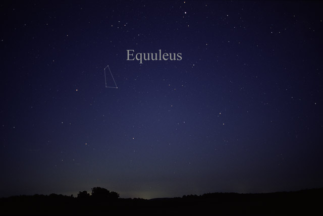 Photography of the constellation Equuleus, the colt